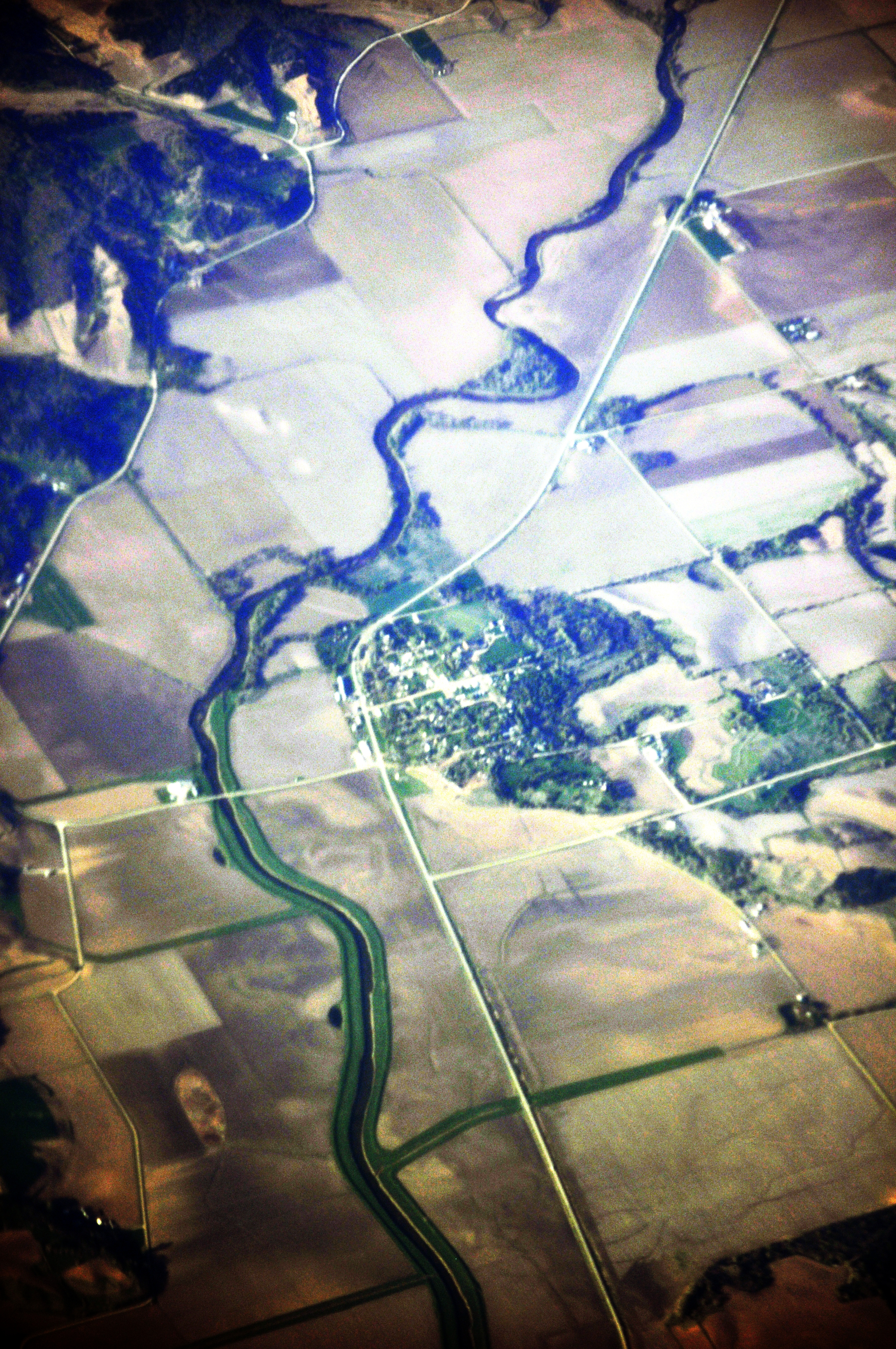 Aerial photo of Castana, Iowa, USA.